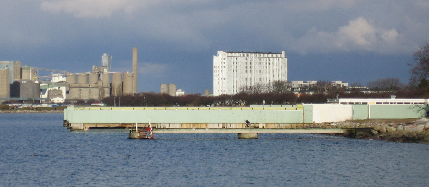 Sibbarp open-air seabath in Malmö, Sweden